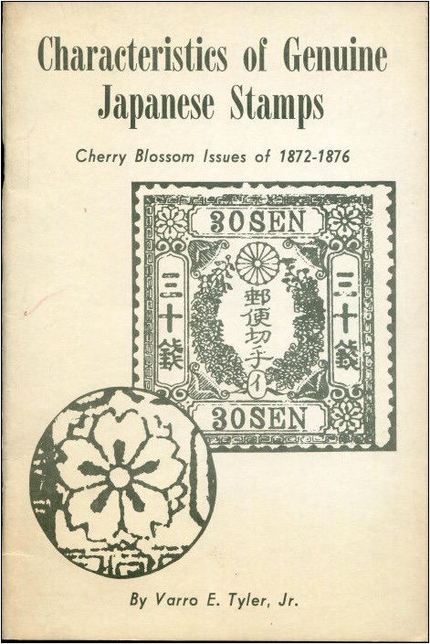 Cover of the book: Characteristics of Genuine Japanese Stamps Cherry Blossom Issues of 1872-1876, by Varro Eugene Tyler